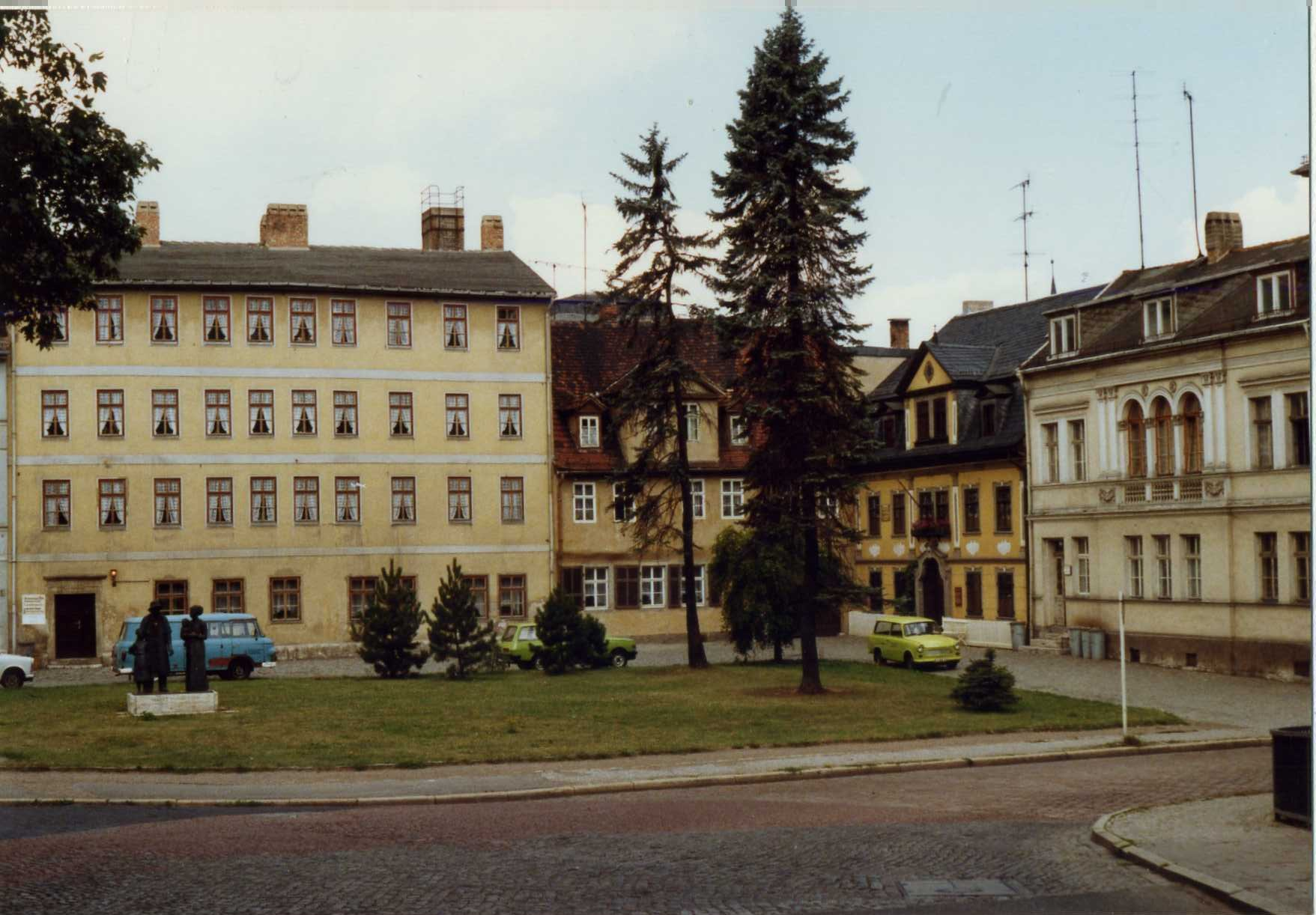 Kegelplatz is now known as Buchenwaldplatz. The memorial of Albert Schweitzeraccompanied a museum , the town being chosen by the Schweitzer Committee. Barkas, Wartburg and Trabants are carefully scattered around the square.